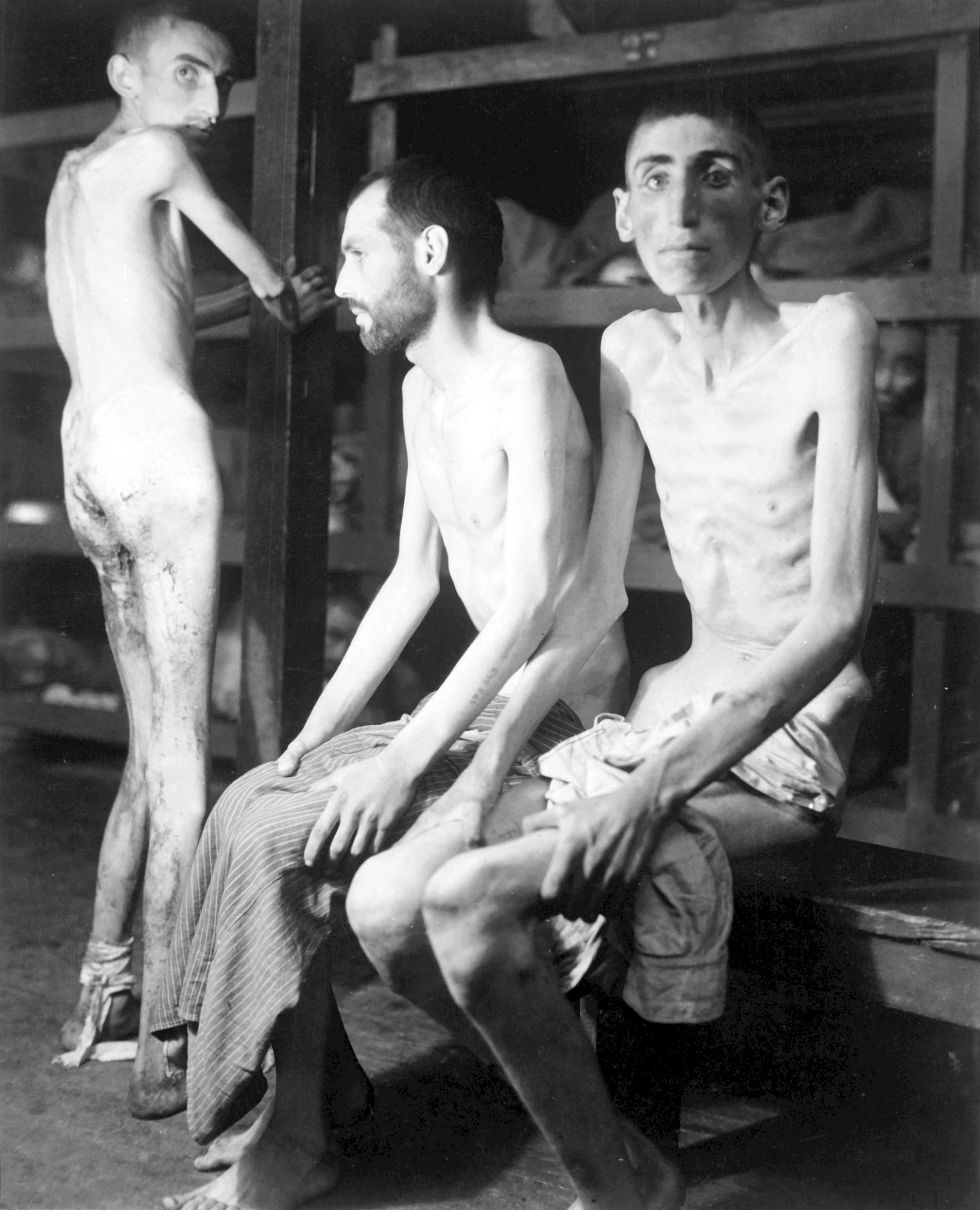 Original caption: "These Russian, Polish, and Dutch slave laborers interned at the Buchenwald concentration camp averaged 160 pounds each prior to entering camp 11 months ago. Their average weight is now 70 pounds. Germany, 04/16/1945."